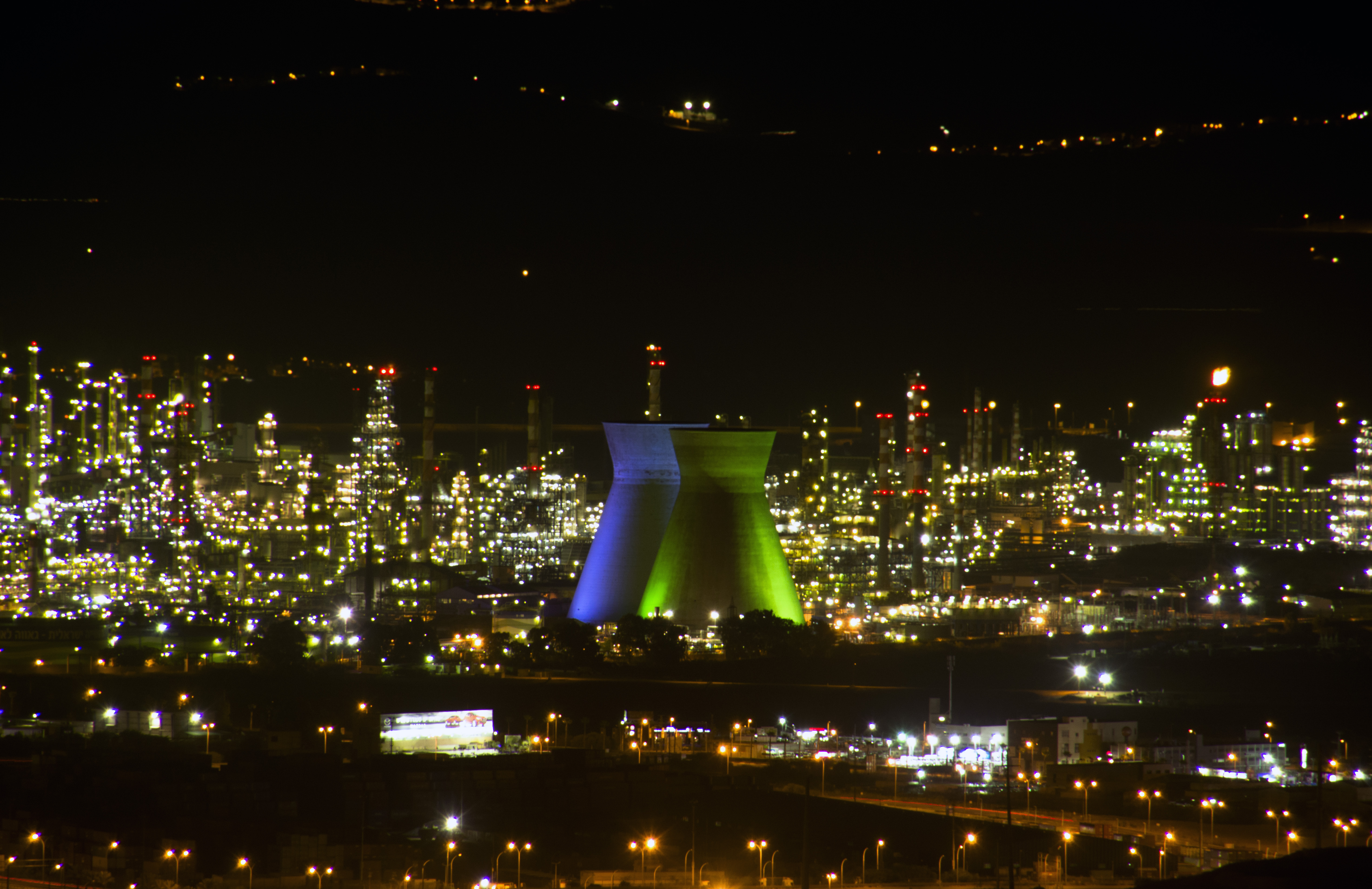 Haifa cooling towers, located within the Haifa Oil Refineries compound (Inactive, Decoration)